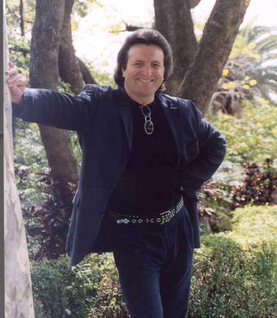 Baritone Jeffrey Black in Cathedral Square, Brisbane, Queensland, Australia in July 2004